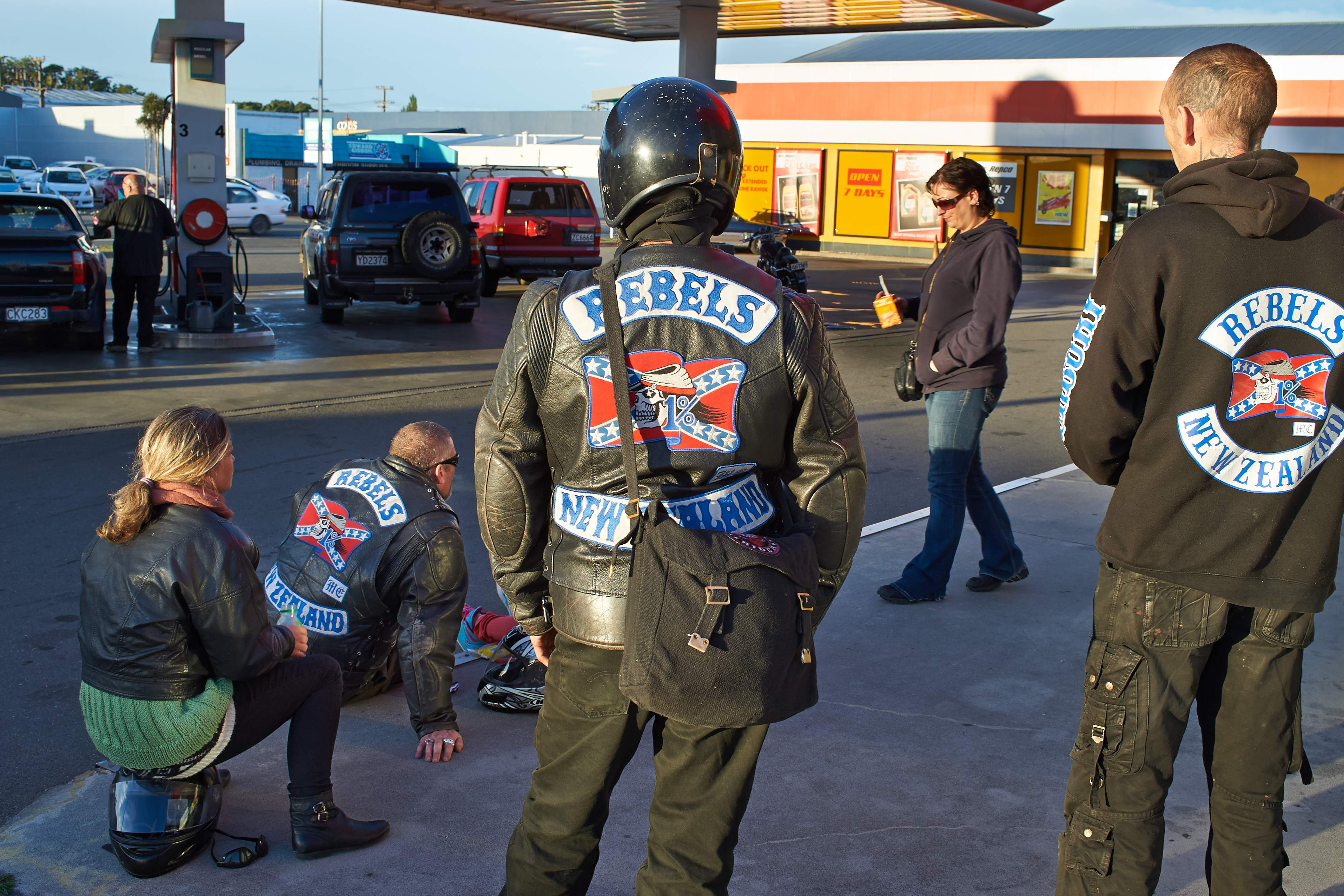 Members of the Rebels Motorcycle Club New Zealand chapter.